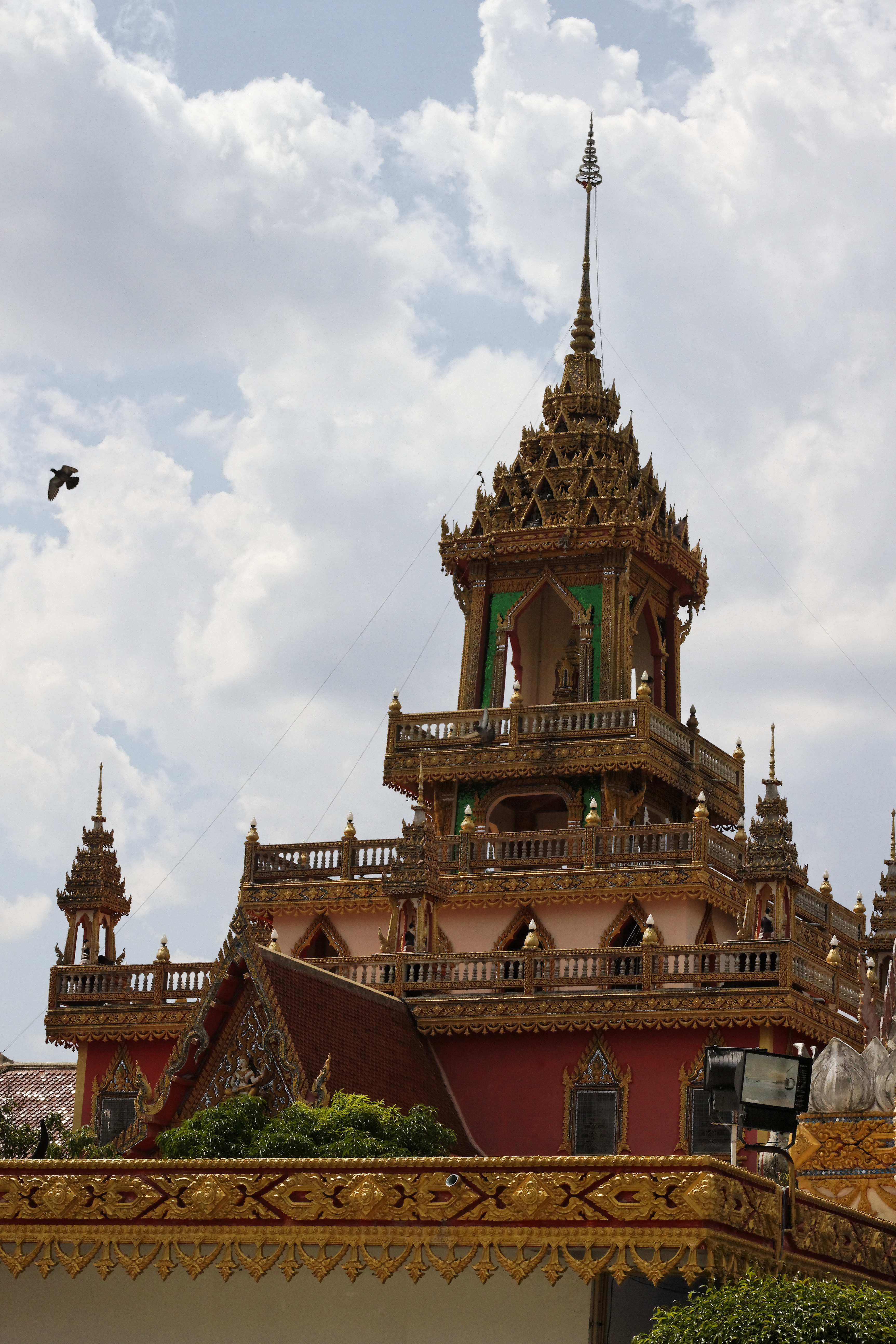 Wat Phra That Ruang Rong is a buddhist temple located in the Province of Sisaket